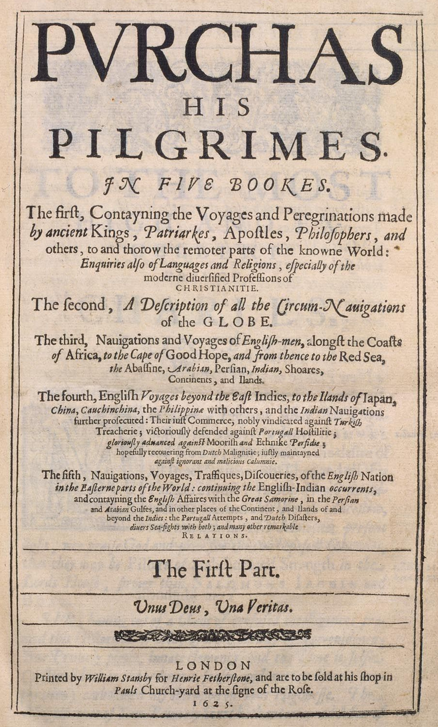 Purchas his Pilgrimes. Prints. 13 x 7 3/4 in (33 x 20 cm).